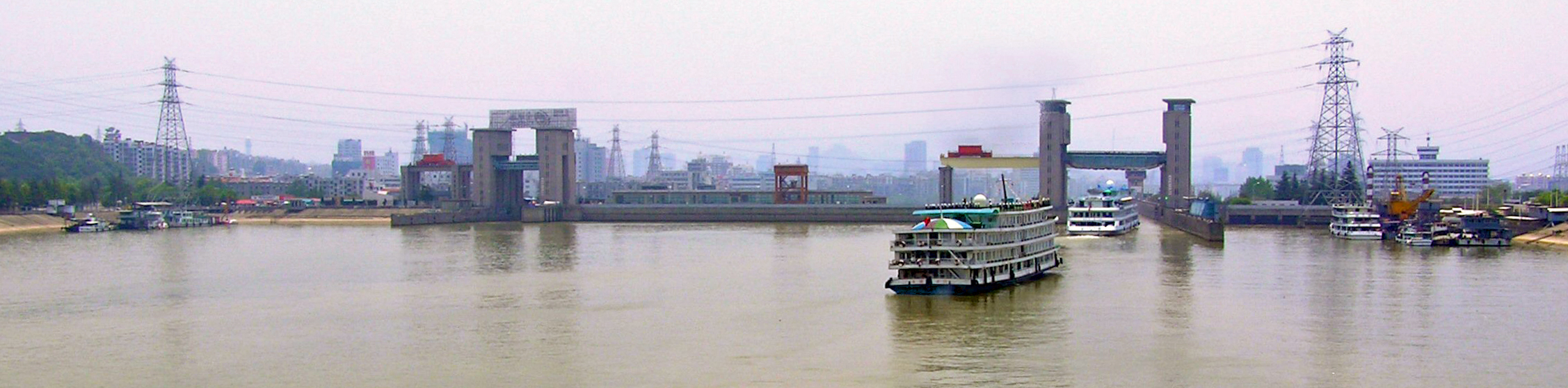 Gezhouba-Dam - Yichang (China) - General view left side, entrance in locks 3 and 2